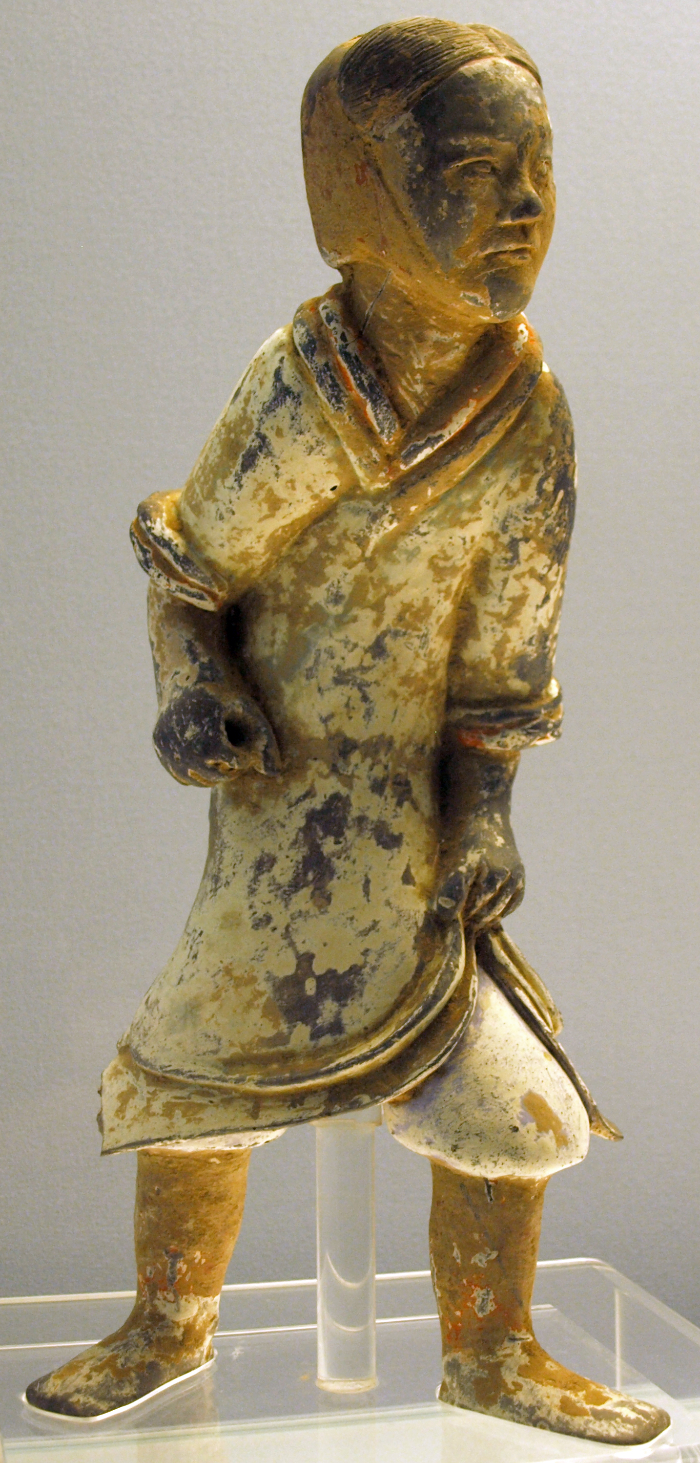 Coloured pottery figurine of a man from the time of the Eastern Han dynasty (25-220 AD). On display at the Shanghai Museum.